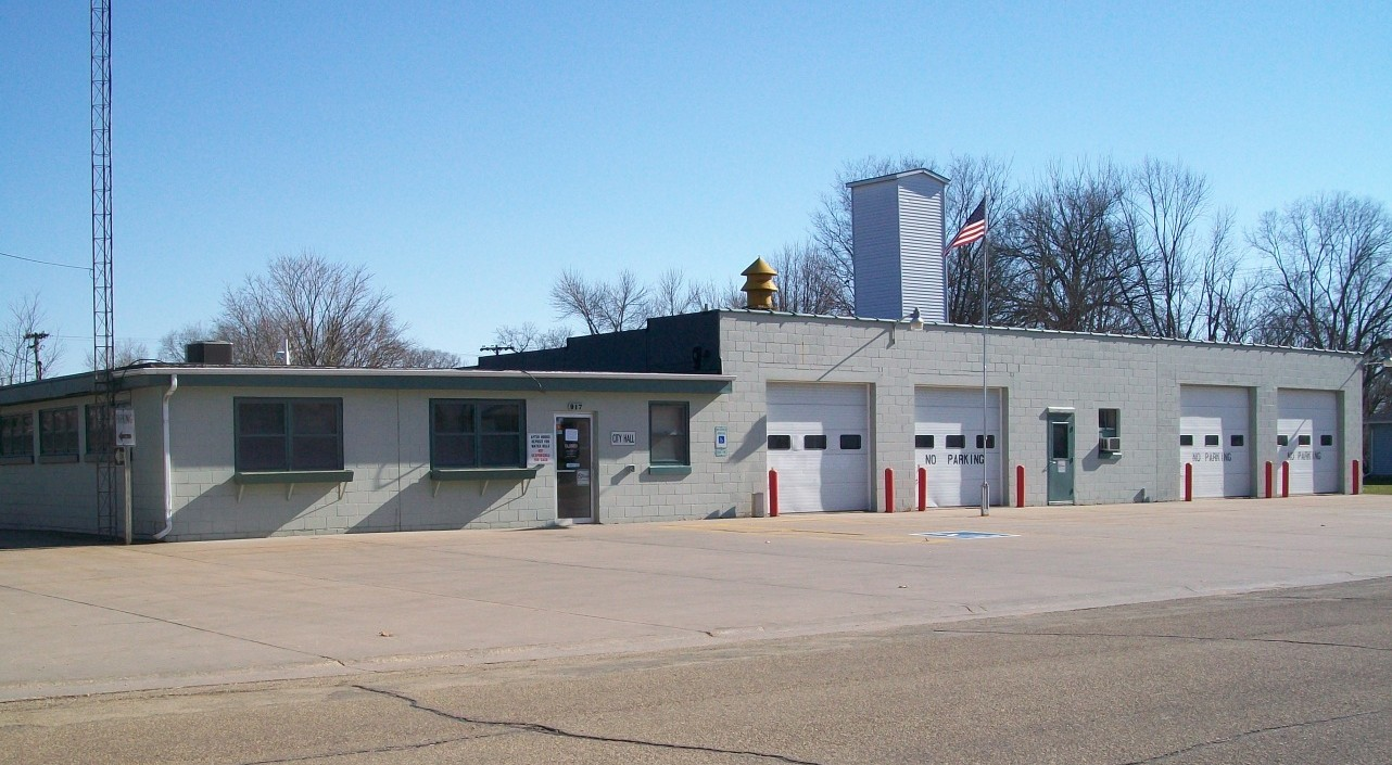 City Hall in Camanche